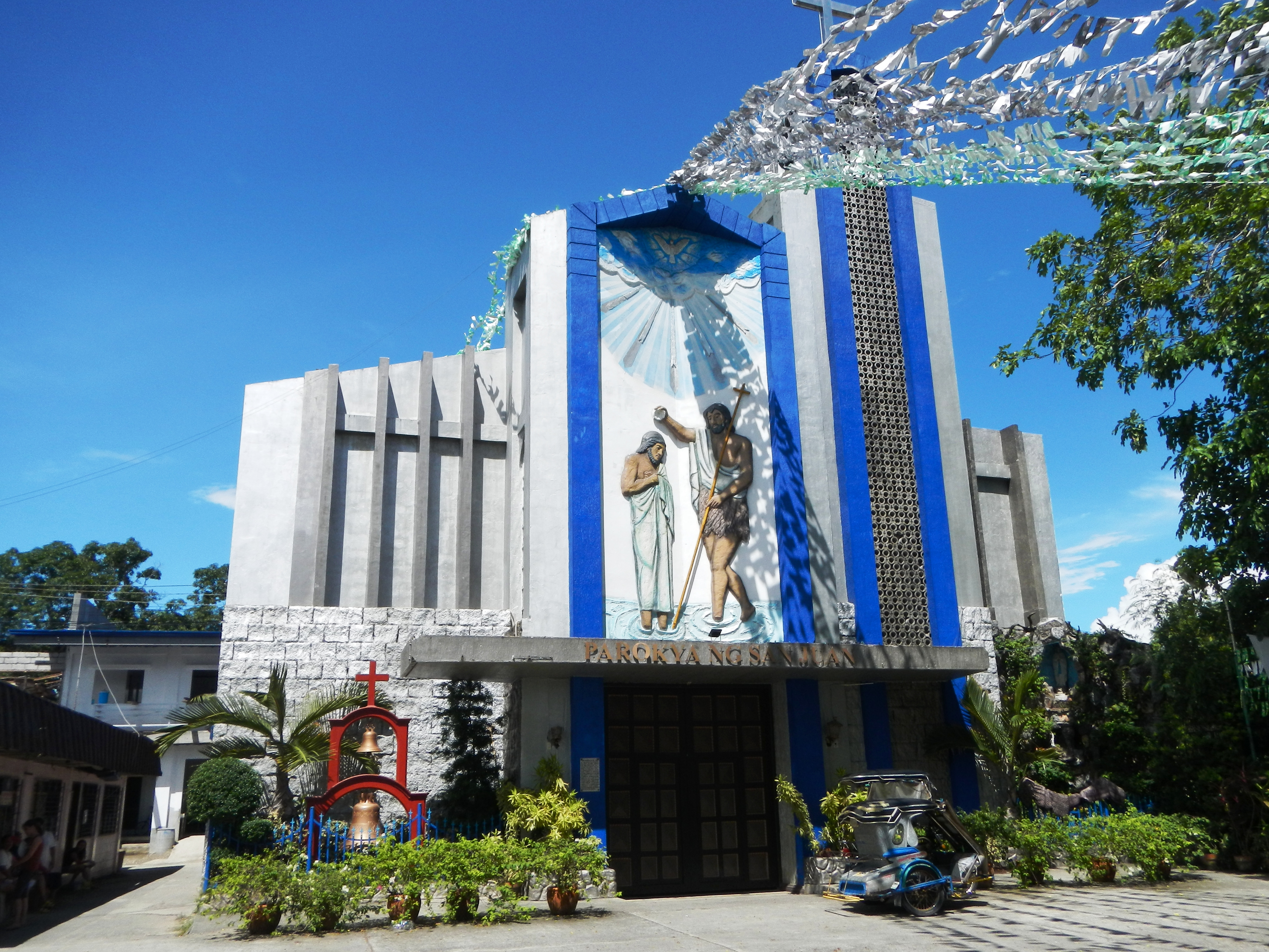 Hagonoy, Bulacan Barangay San Juan, Hagonoy, Bulacan - Roman Catholic Diocese of Malolos, Saint John the Baptist Parish Church (San Juan, Hagonoy, Bulacan) beside the San Juan Elementary School near the Barangay Hall which is connected by the Bridge over Hagonoy River or Calumpit River beside the Welcome boundary road-sign of Hagonoy, Bulacan Barangay San Isidro, Hagonoy-Bulacan.